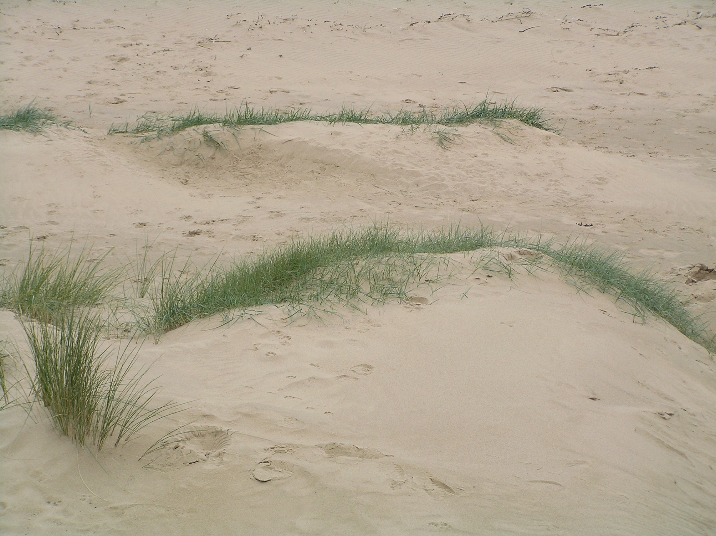 An embryo dune at Sandscale Haws, Cumbria, England. Prevailing species: Elymus athericus